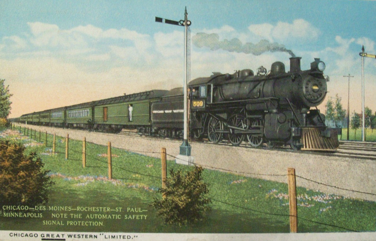 Postcard depiction of the Chicago Great Western Limited, which traveled between Chicago and Minneapolis/ St. Paul.